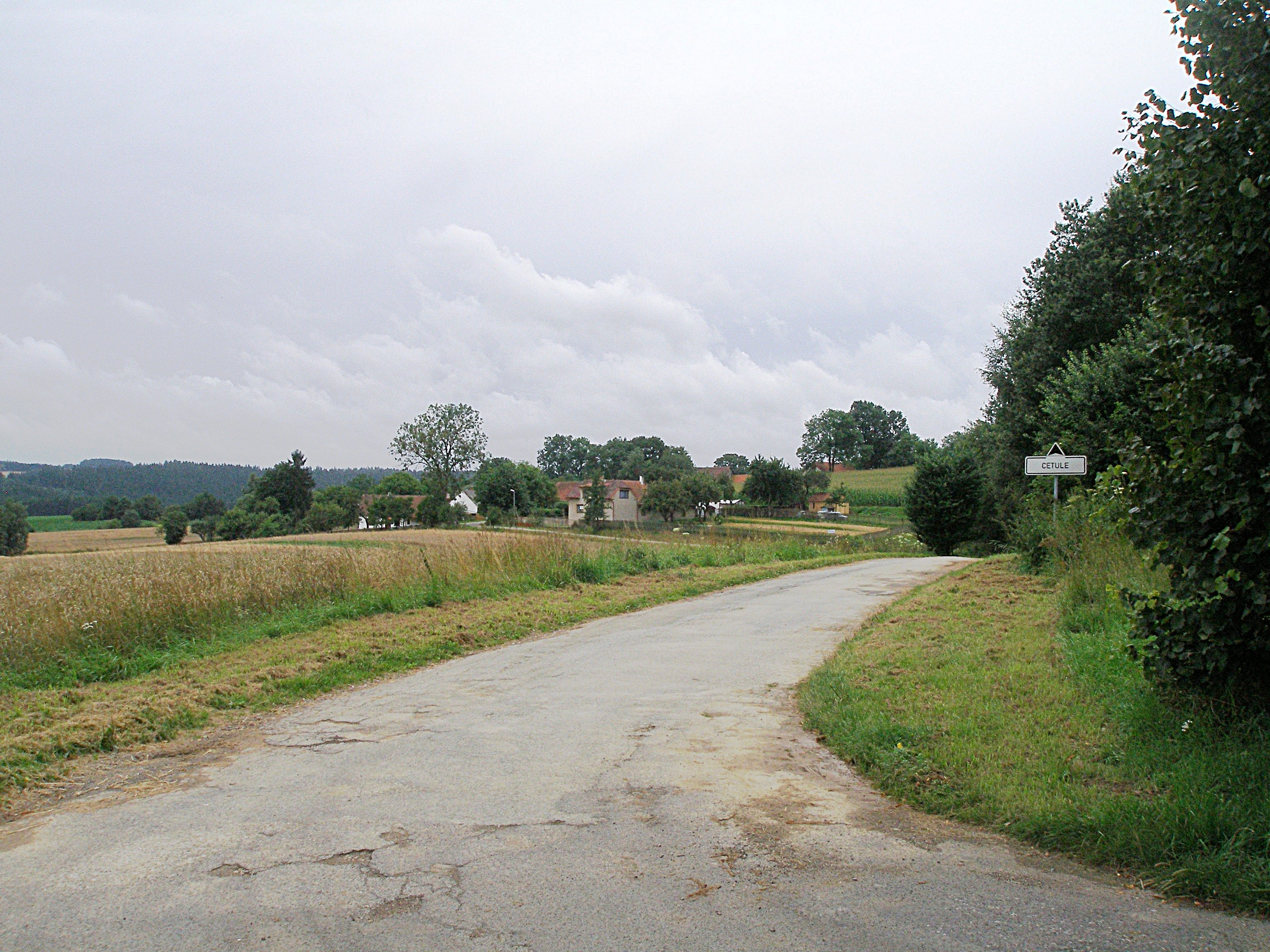 Cetule - the general view